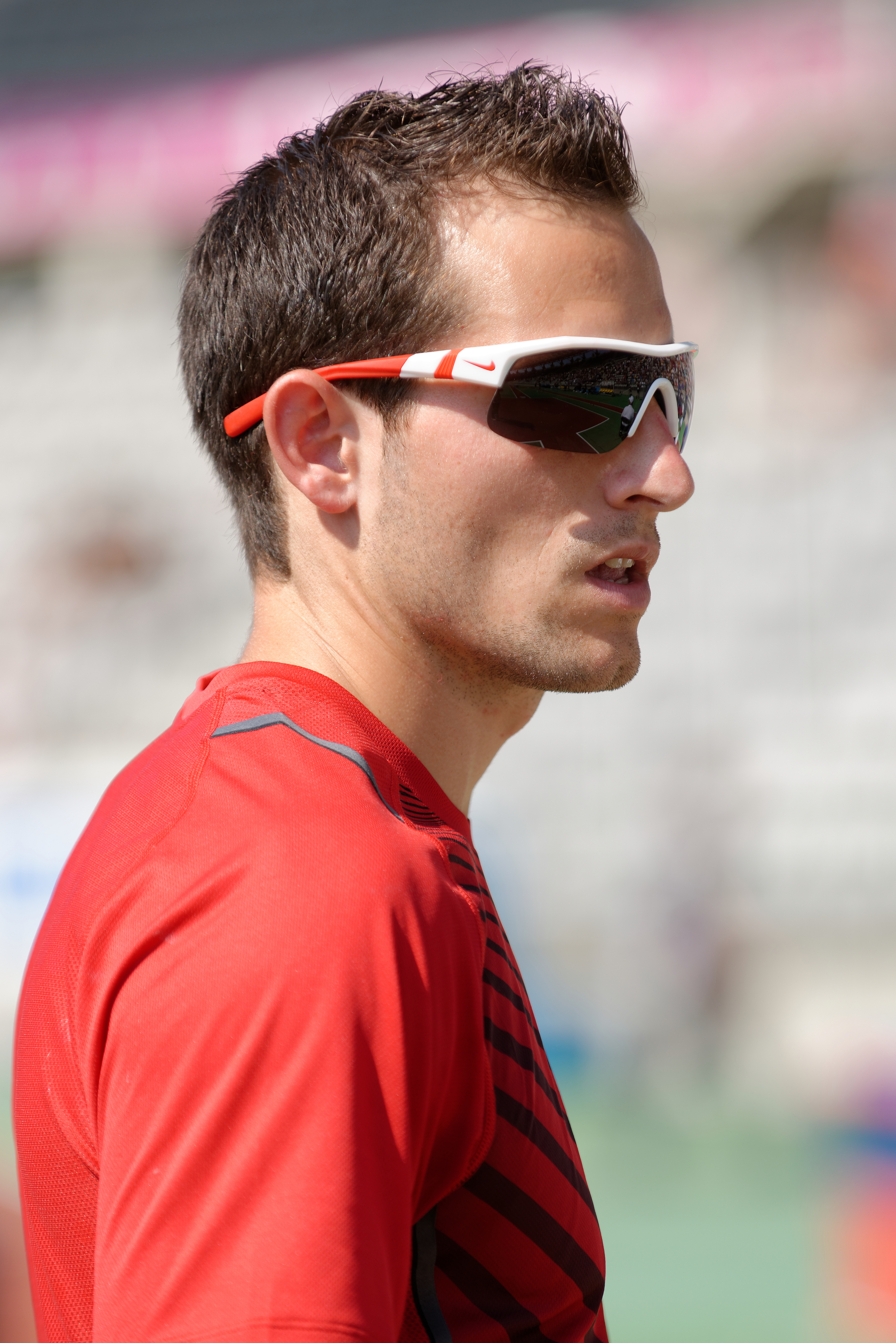 Renaud Lavillenie competes in the men's pole vault final during the French Athletics Championships 2013 at Stade Charléty in Paris, 14 July 2013.